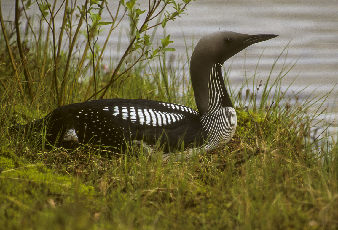 Black-throated Diver Gavia arctica, Oulu, Finland 02